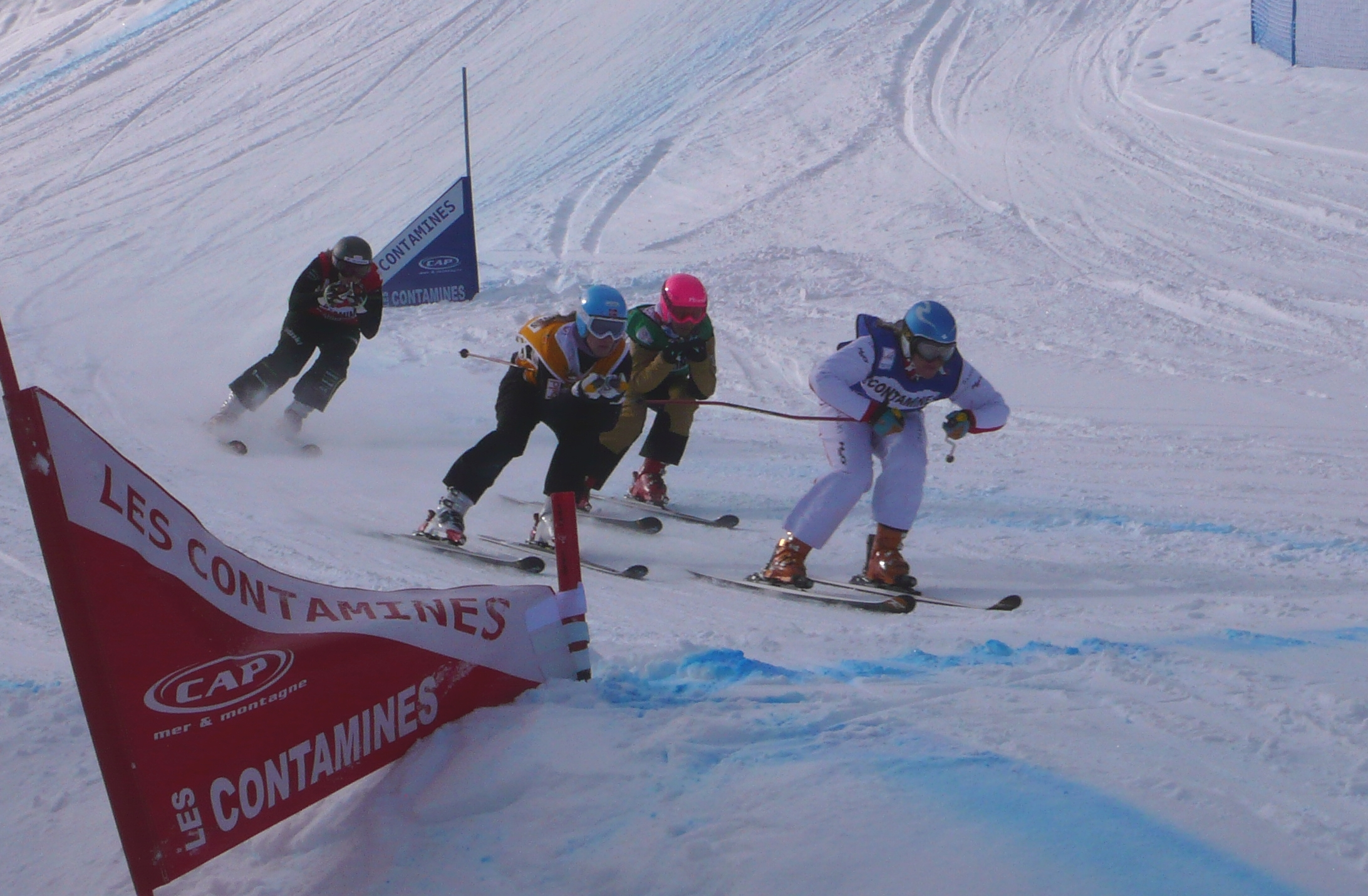 Ski Cross World Cup at Les Contamines-Montjoie, small final: Sophie Fjellvang-Soelling, Gro Kvinlog Genlid, Marion Josserand, Katrin Mueller.